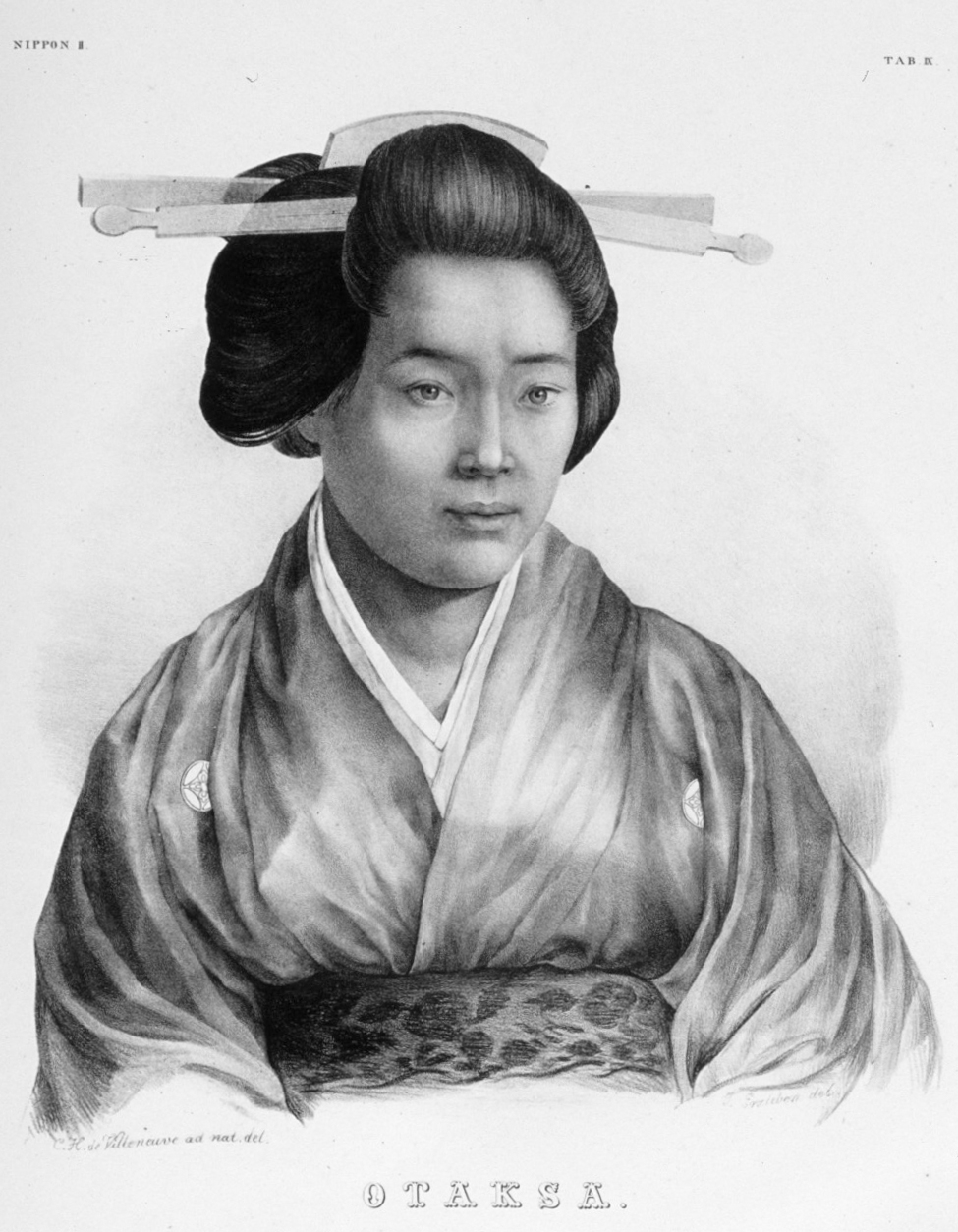 "Otaksa". Kusumoto Taki (1807-1865), a.k.a. Sonogi, Von Siebold inamorata. May 10th, 1827 their daughter Ine (1827-1903) was born, who later became the first female physician and obstetrician in Japan.